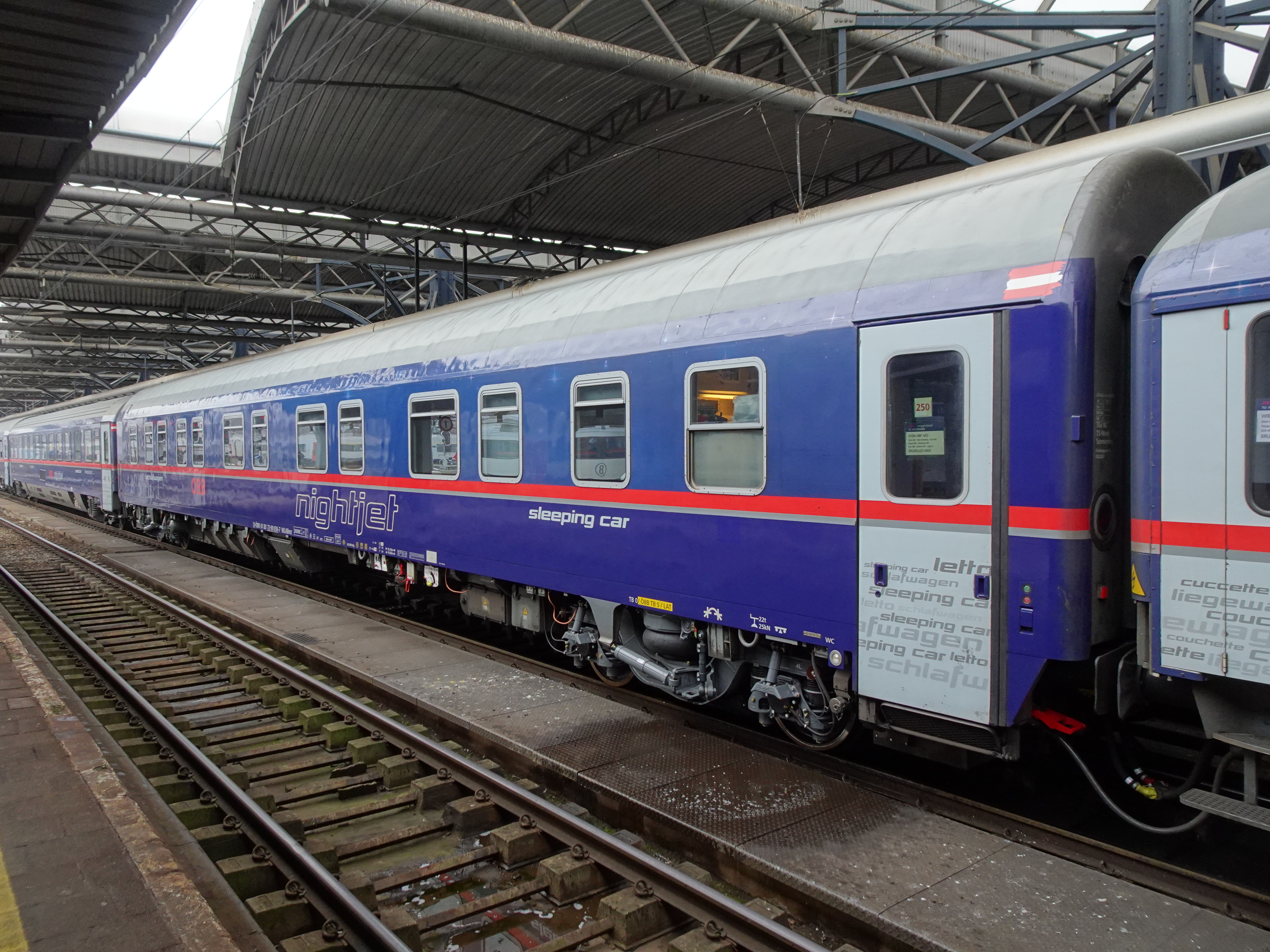 Nightjet sleeping car with special livery for Nightjet's 1st Wien / Innsbruck - Brussels commercial run.